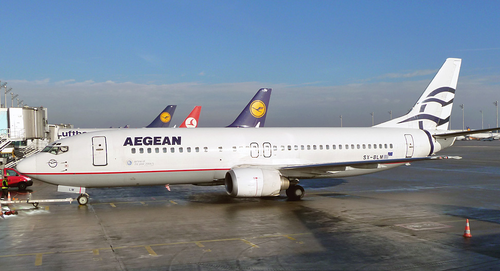 Aegean Airlines Boeing 737-400, registration SX-BLM is seen here being pushed from a gate a Munich Airport's Terminal 2.